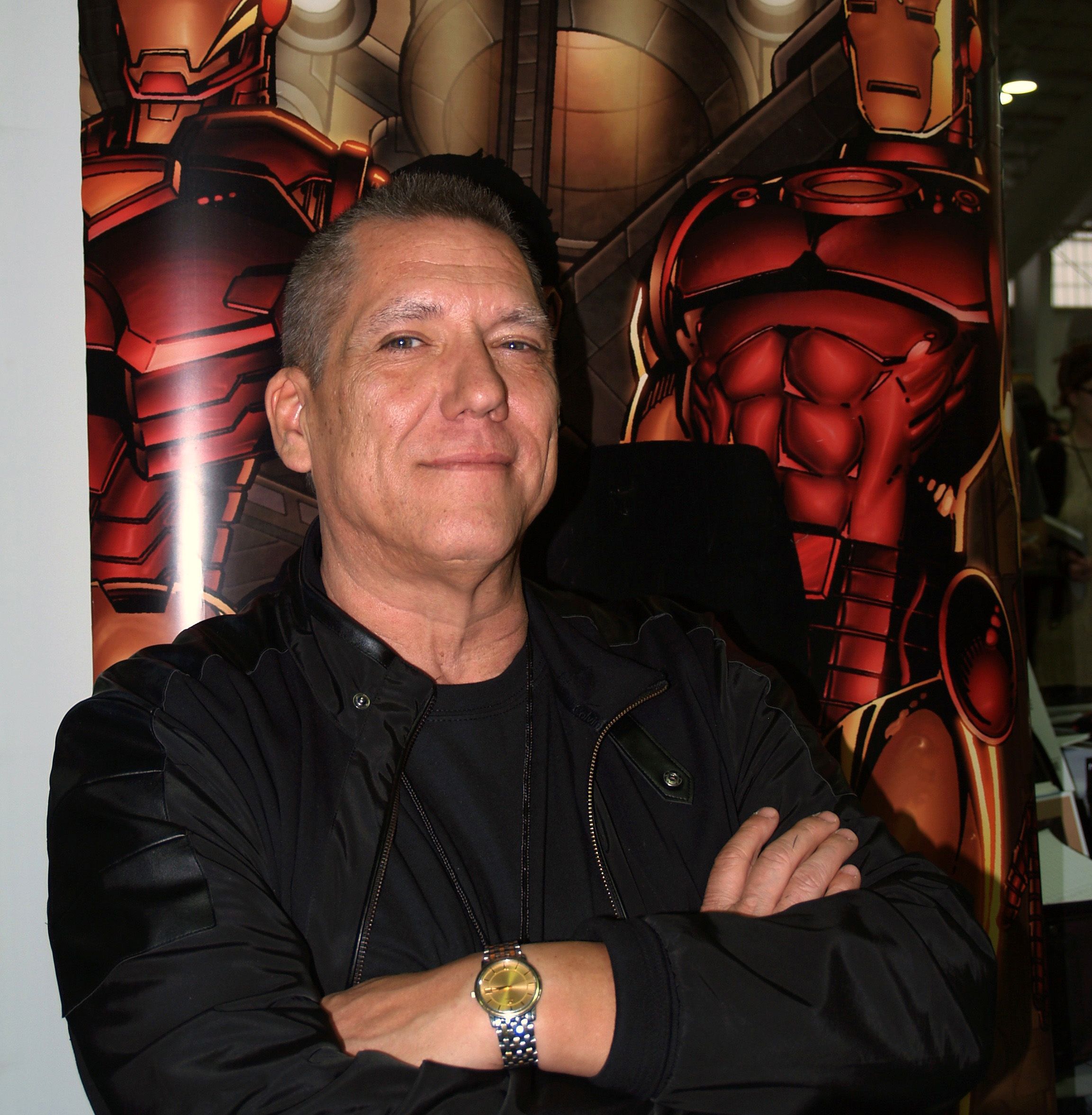 Comics writer/artist/editor Bob Layton on Friday, October 10, 2014 at the Jacob K. Javits Convention Center in Manhattan, Day 2 of the 2014 New York Comic Con. This photo was created by Luigi Novi. It is not in the public domain, and use of this file outside of the licensing terms is a copyright violation.